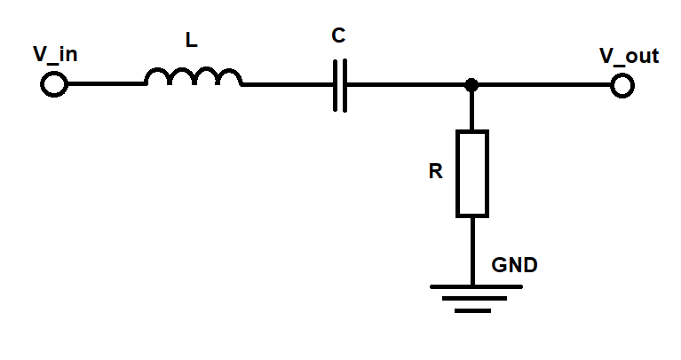 Passive band pass filter